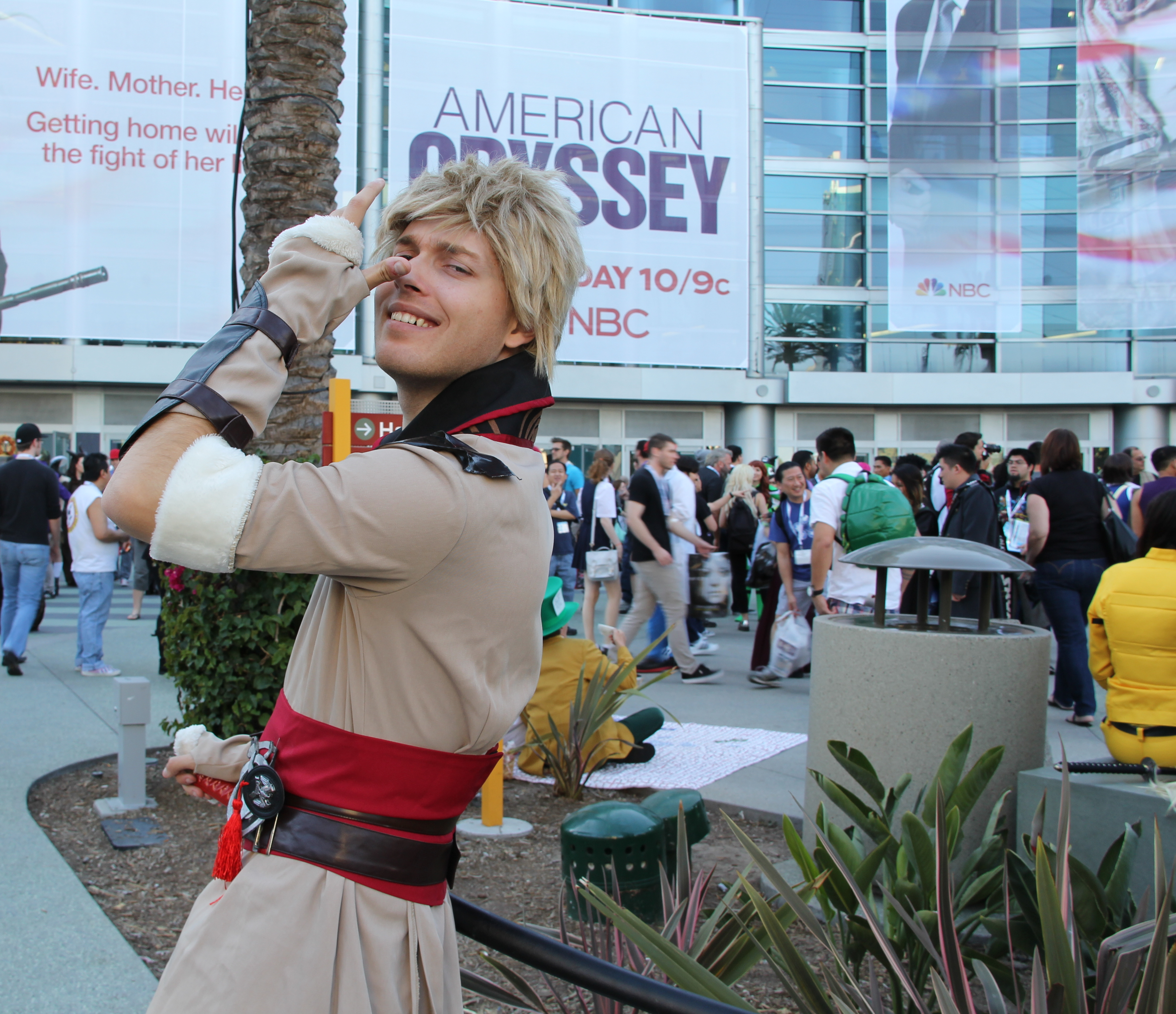 A cosplay of Owain from Fire Emblem: Awakening